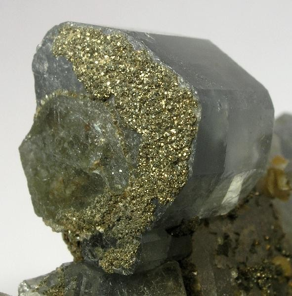 Apatite, Quartz, Pyrite Locality: Panasqueira, Covilhã, Castelo Branco District, Portugal (Locality at ) Size: 9.7 x 7.2 x 4.3 cm. Interesting and attractive cluster of Apatites coated with Pyrite, all on Quartz. The Apatites are a lovely grey-blue in color and have good luster. They are partially gemmy, but what is so unique are the Pyrites that coat two of the Apatites faces, particularly the largest 2 cm crystal. Ex. Steve Smale Collection.